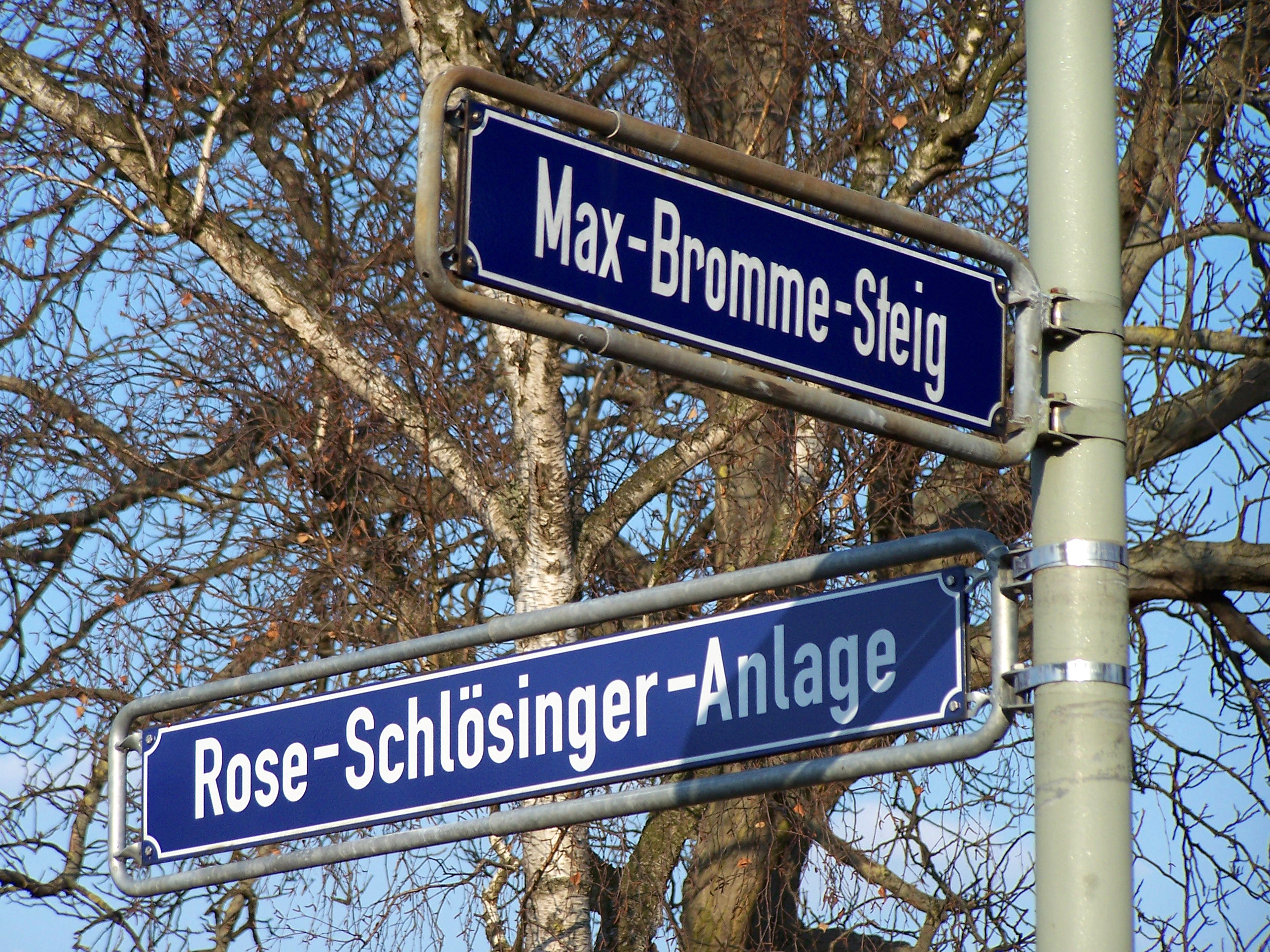 Street sign of the park which is named after the resistance fighter Rose Schlösinger at the Bornheimer Hang which is crossed by the Max-Bromme-Steig, Frankfurt am Main-Bornheim, March 2011